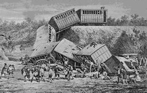 Note removed from the image